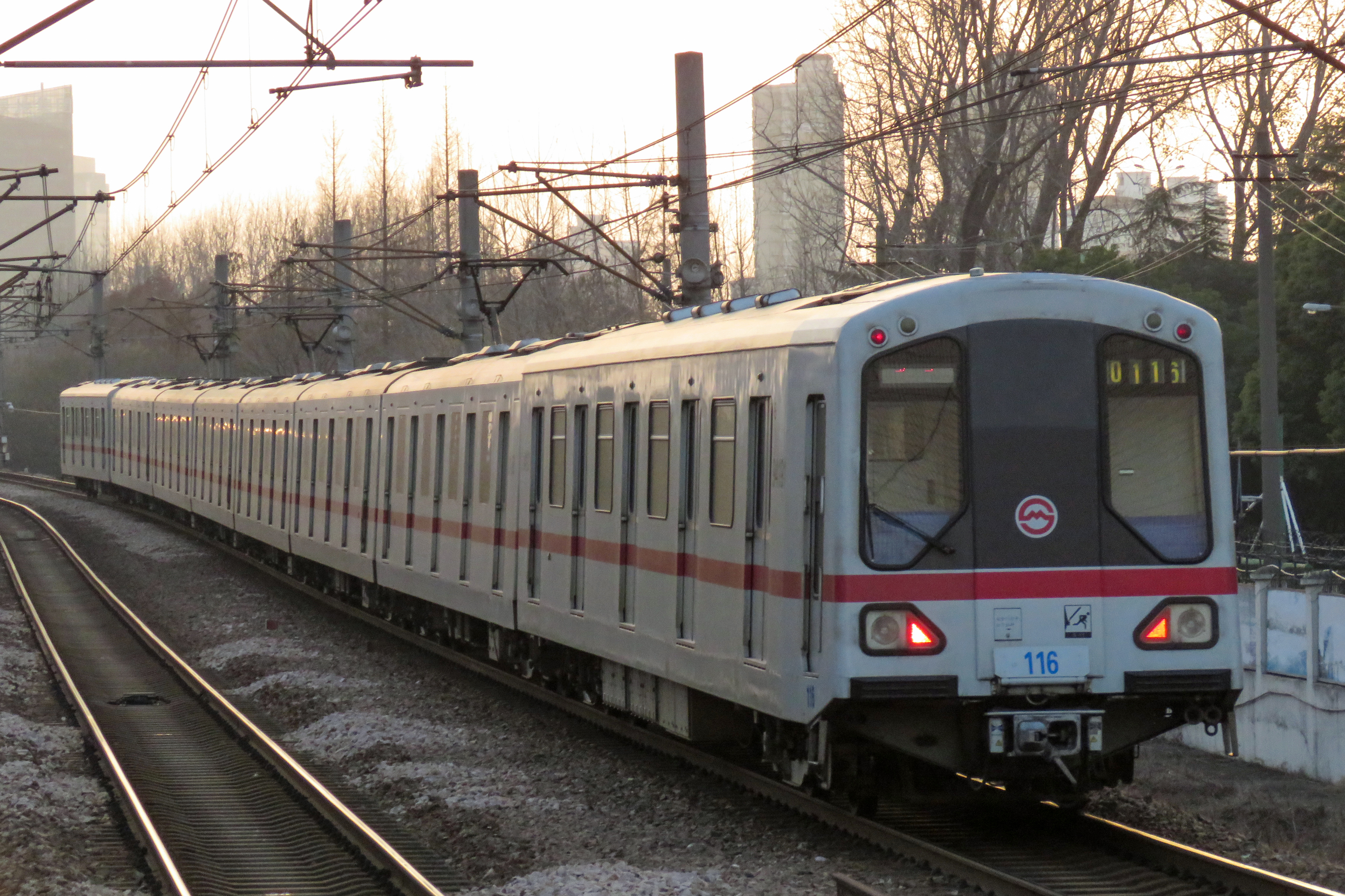 Leaving for Xinzhuang.